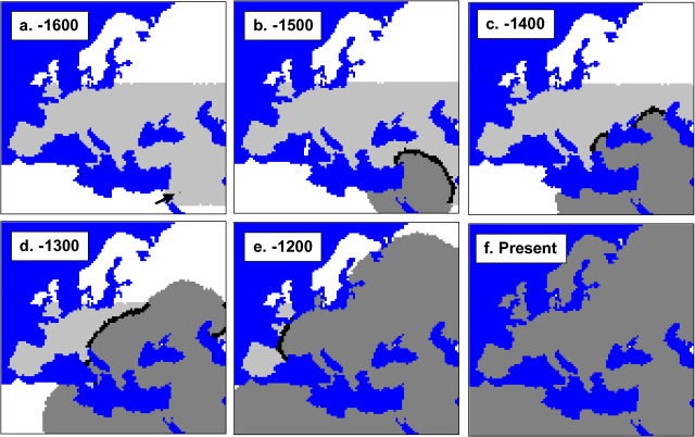 Range Expansion of Modern Humans into Europe from the Near East. Simulations begin 1,600 generations ago, with the area of Europe already colonized by Neanderthals shown in light gray, and an origin of modern human expansion indicated by a black arrow (Diagram A). Diagram (B–F) show the progression of the wave of advance of modern humans (dark gray) into Europe at different times before present. The black band at the front of the expansion wave represents the restricted zone of cohabitation between modern humans and Neanderthals.